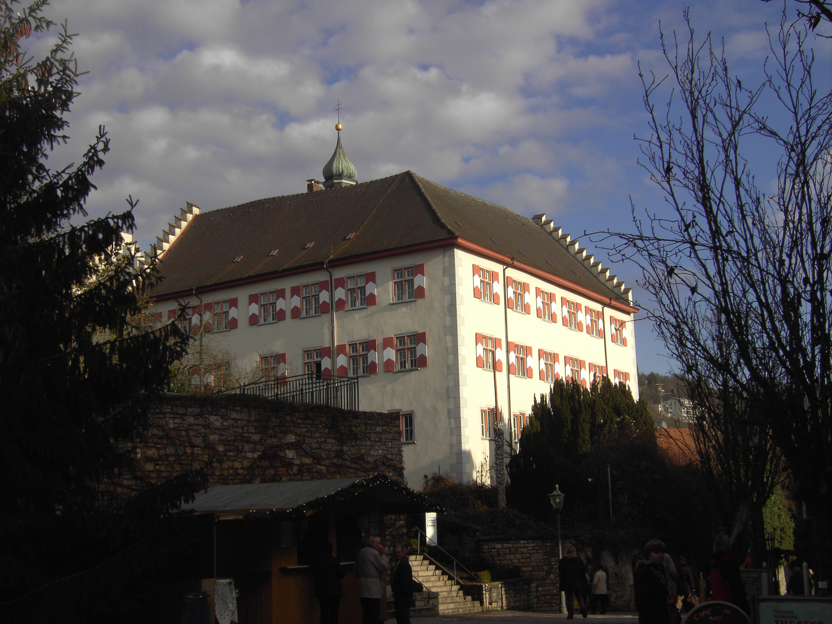 Castle in Waldshut-TIENGEN, Germany